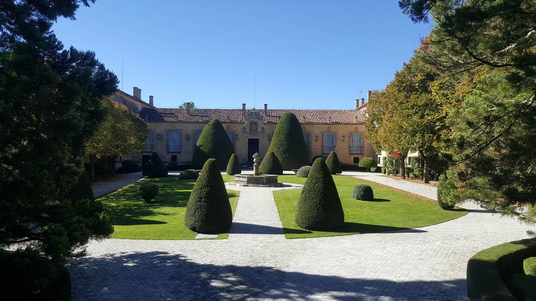 Casa Palacio de los González de Gregorio/Palacio de Quintana. Quintana Redonda. Soria